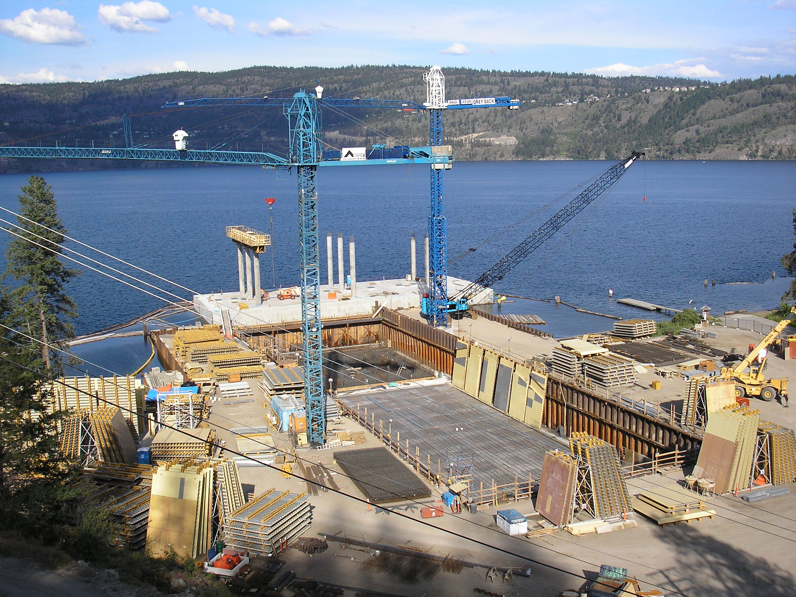 Construction of the roadway towers above cement pontoon #2; in the graving dock, the base slabs for pontoons 1 and 12 are being prepared.